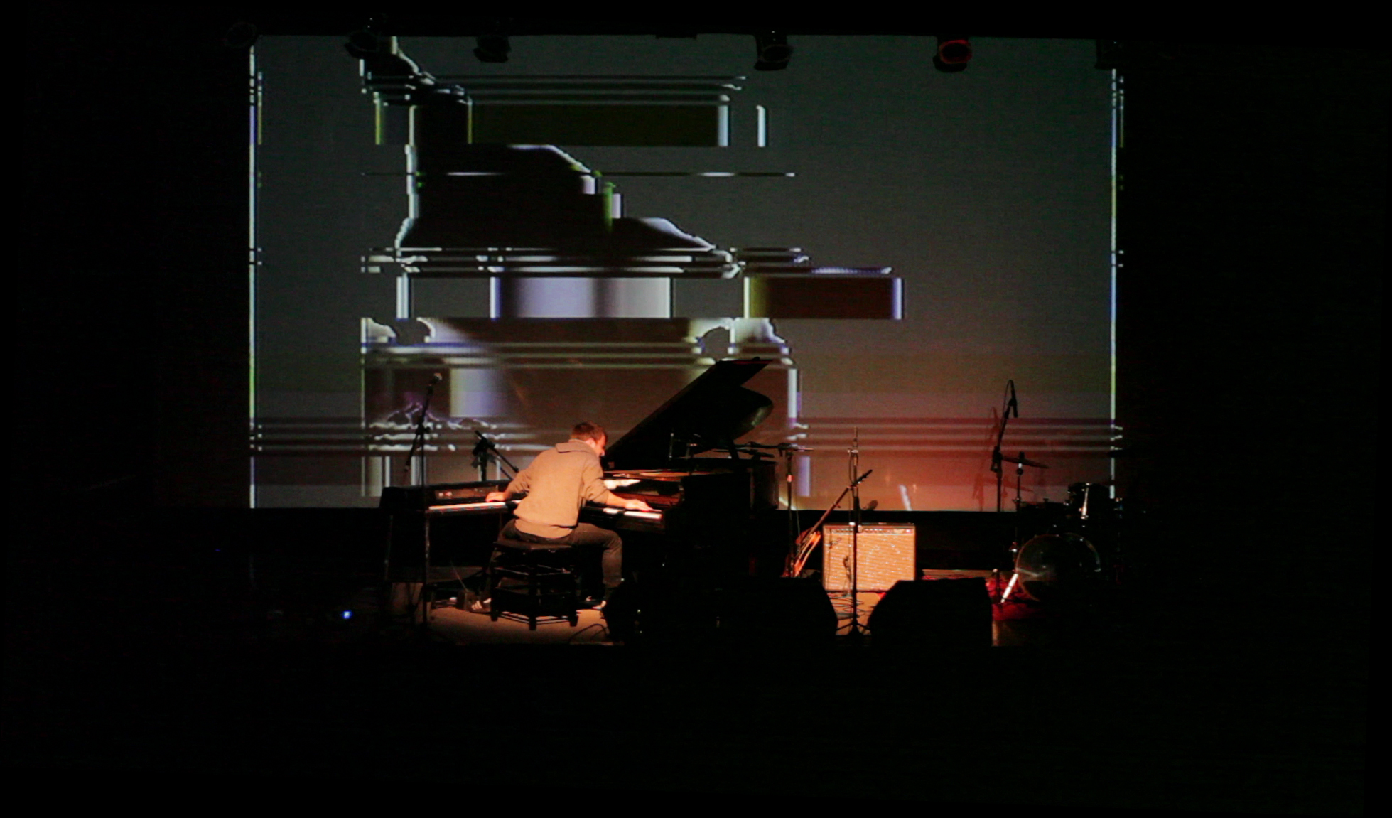 Nils Frahm. Image of my performance at Nova Festival in Sao Paolo, Brazil last month, together with Nils Frahm. I was worried that the piano would be too sweet for glitch visuals, but during this performance I learned that the piano is actually one of the strongest instruments in the world..it . As a real Brazilian gig is supposed to work out - we had absolutely no time to prepare or to rehearse. So it was all improv, and it was one of those performances that made me realize why I do love what I do. It was a rush.